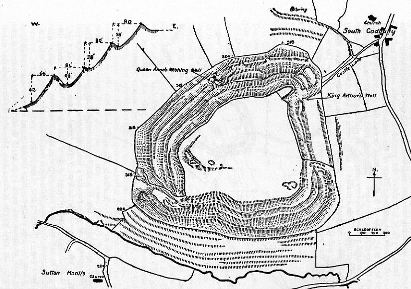 Map of earthworks at Cadbury Castle, Somerset, England.